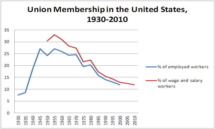 Data is for every five years from 2005 to 2010. Source: for 1930 to 2000 from Union Membership Trends in the United States, Table A-1 Apendix A. Source for 2005 and 2010 numbers (wage and salary workers only) from Bureau of Labor Statistics. Chart was created using Excel.